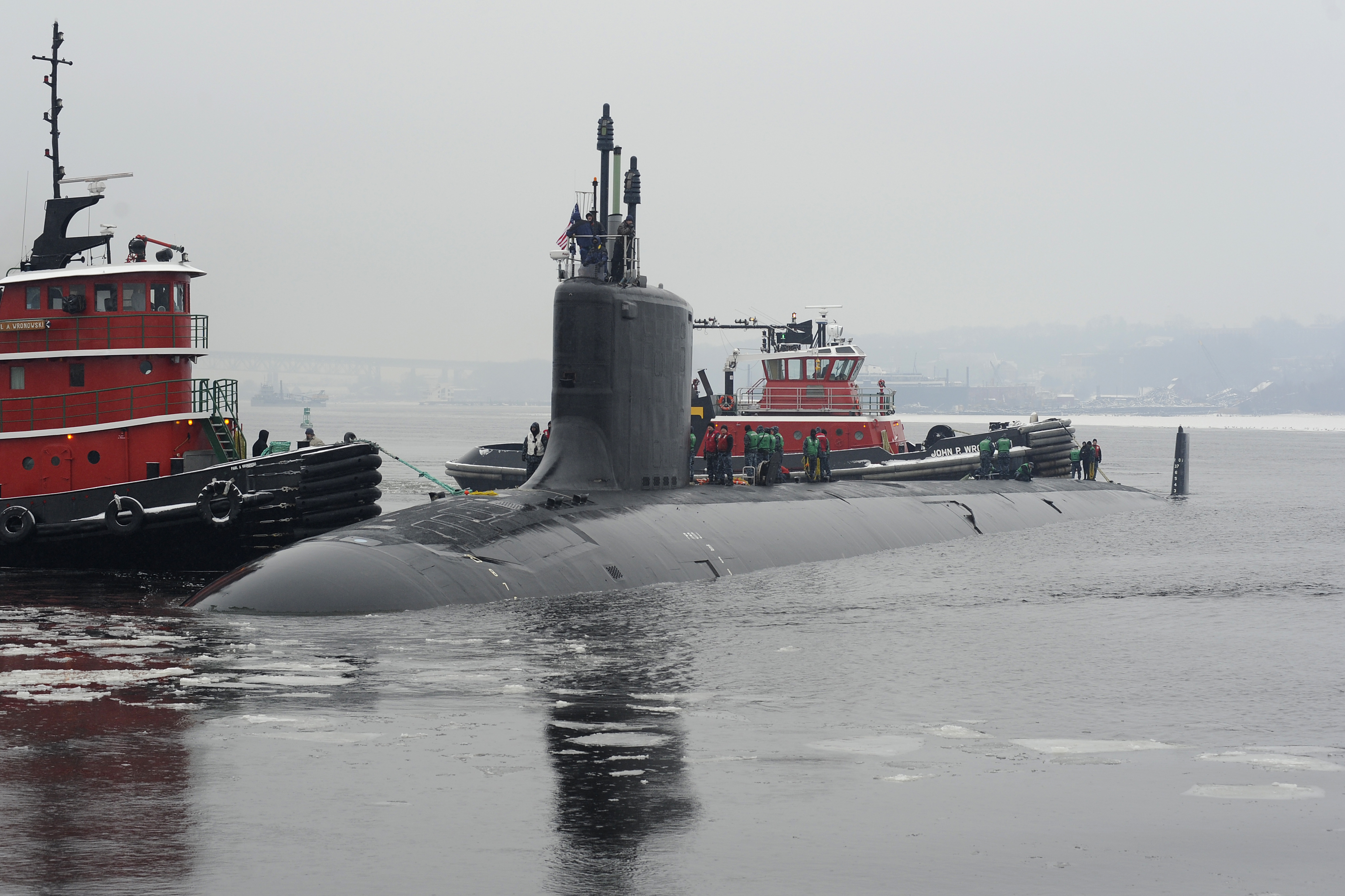 The Virginia-class attack submarine USS Minnesota (SSN 783) arrives at its new homeport at Submarine Base New London. Minnesota is the tenth Virginia-class attack submarine and was commissioned in Norfolk in September. (U.S. Navy photo by John Narewski/Released)